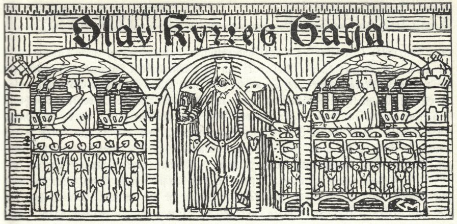 Gerhard Munthe: Illustration for Olav Kyrres saga, Heimskringla 1899-edition. Tittelfrise.